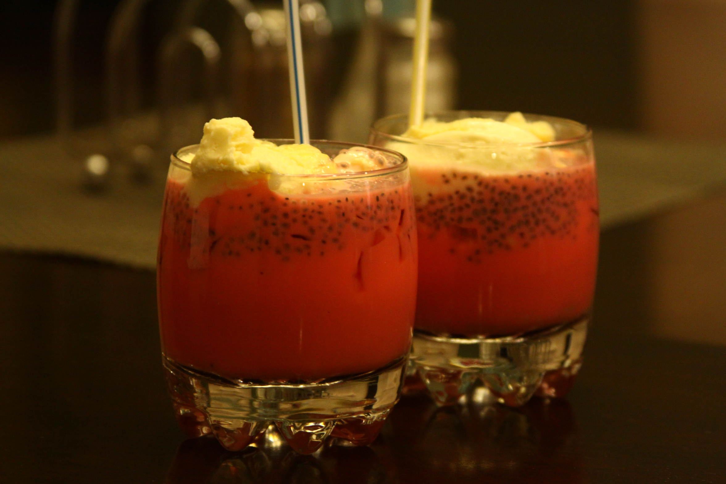 Indian dessert with rose flavoured milk and dryfruits